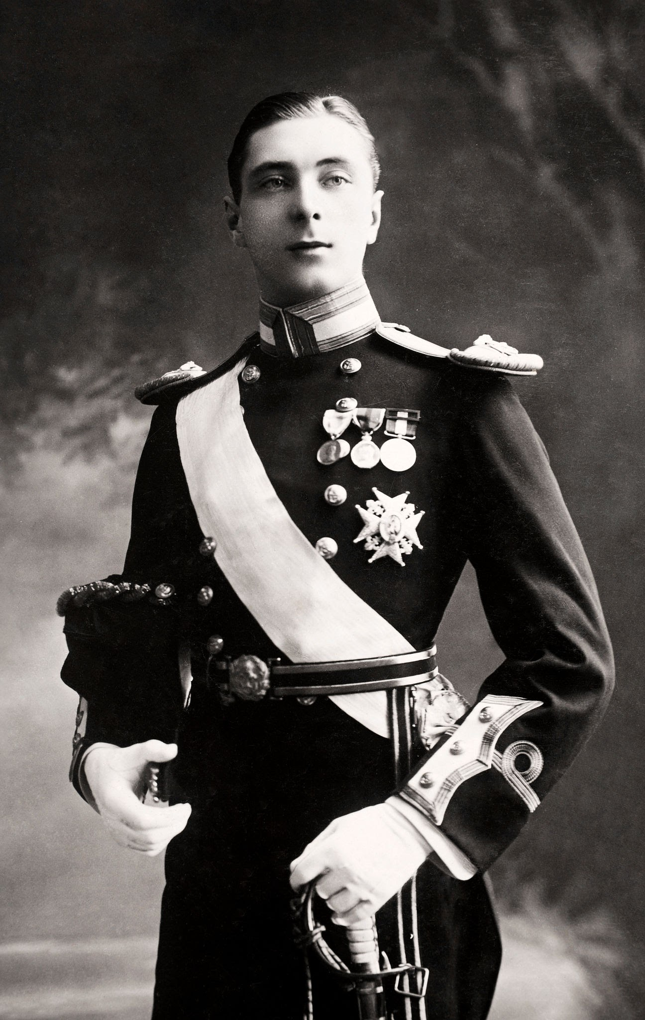 Prince Alexander of Battenberg, later 1st Marquess of Carisbrooke, eldest son of Princess Beatrice